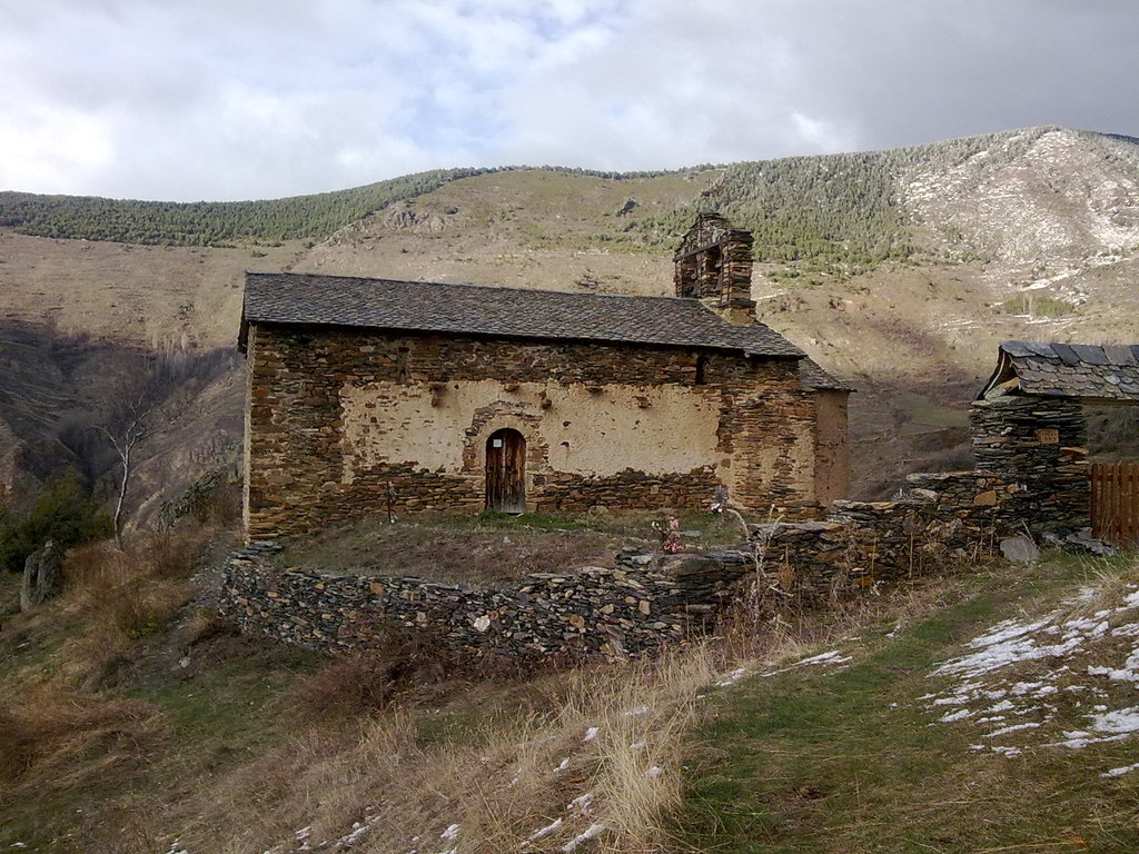 Santa Eulàlia d'Alendo (Alendo, Farrera, Pallars Sobirà)